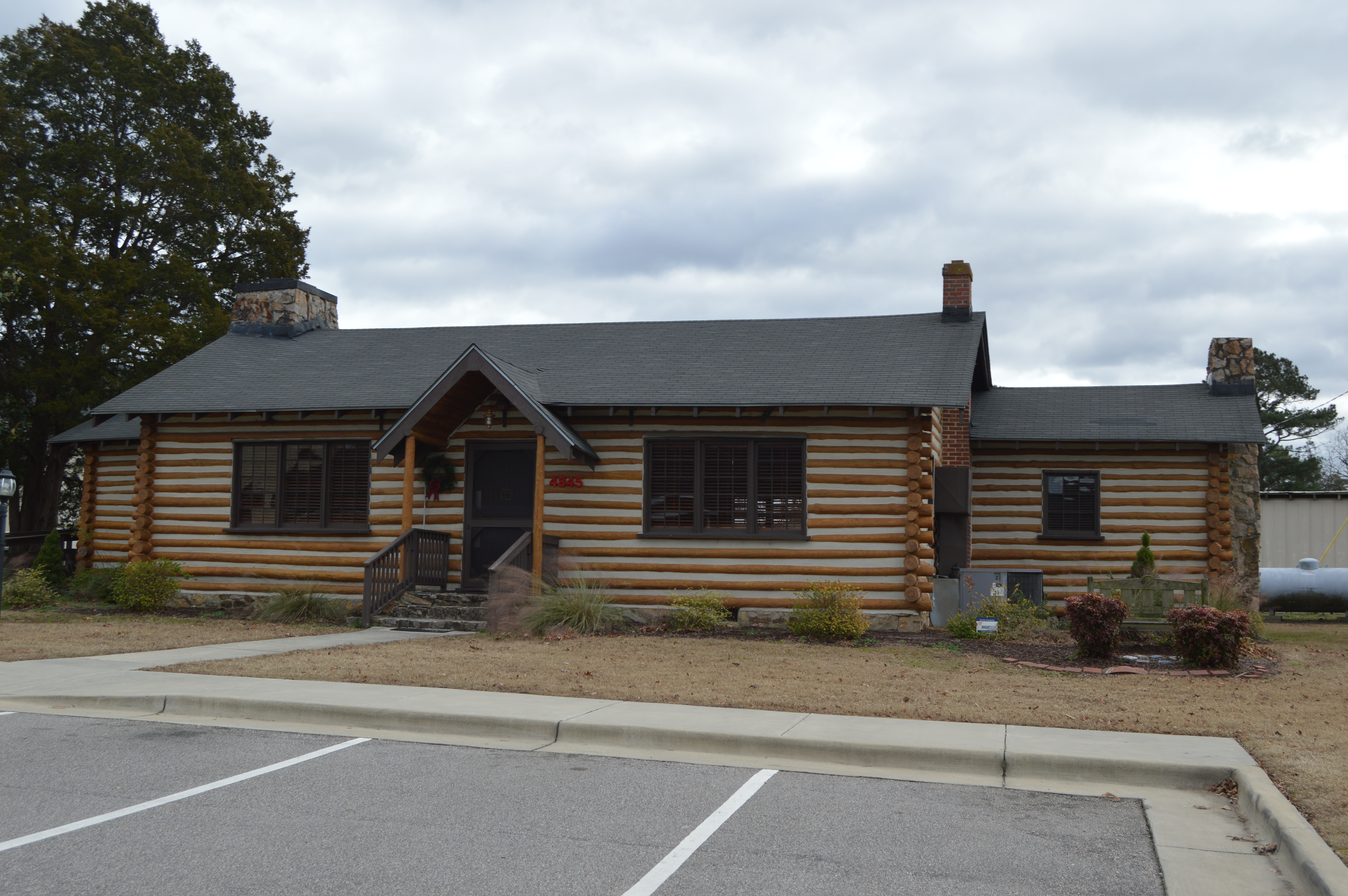 Front of the Red Oak Community House, located on Church Street in Red Oak, North Carolina, United States. Built in 1935 by the Federal Emergency Relief Administration, it is listed on the National Register of Historic Places.